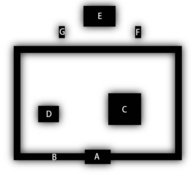 Plan of Horyuji Temple. 法隆寺伽藍配置図A:中門 B:回廊 C:金堂 D:塔 E:講堂 F:経蔵 G:鐘楼